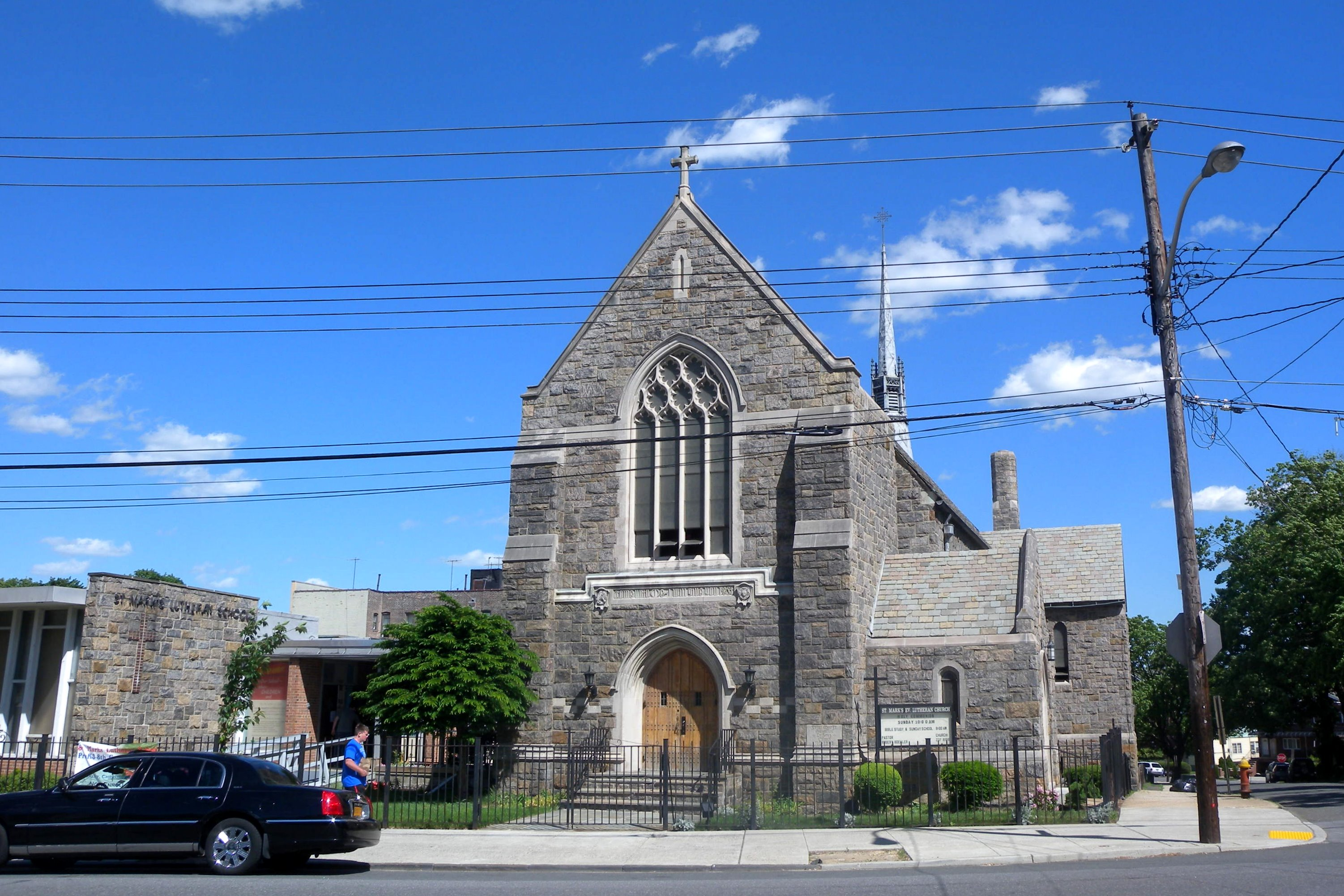 Looking east across Kimball Avenue at St Mark's Evangelical Church on a sunny afternoon.